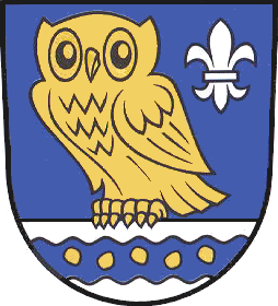 Coat of arms of Steinbach